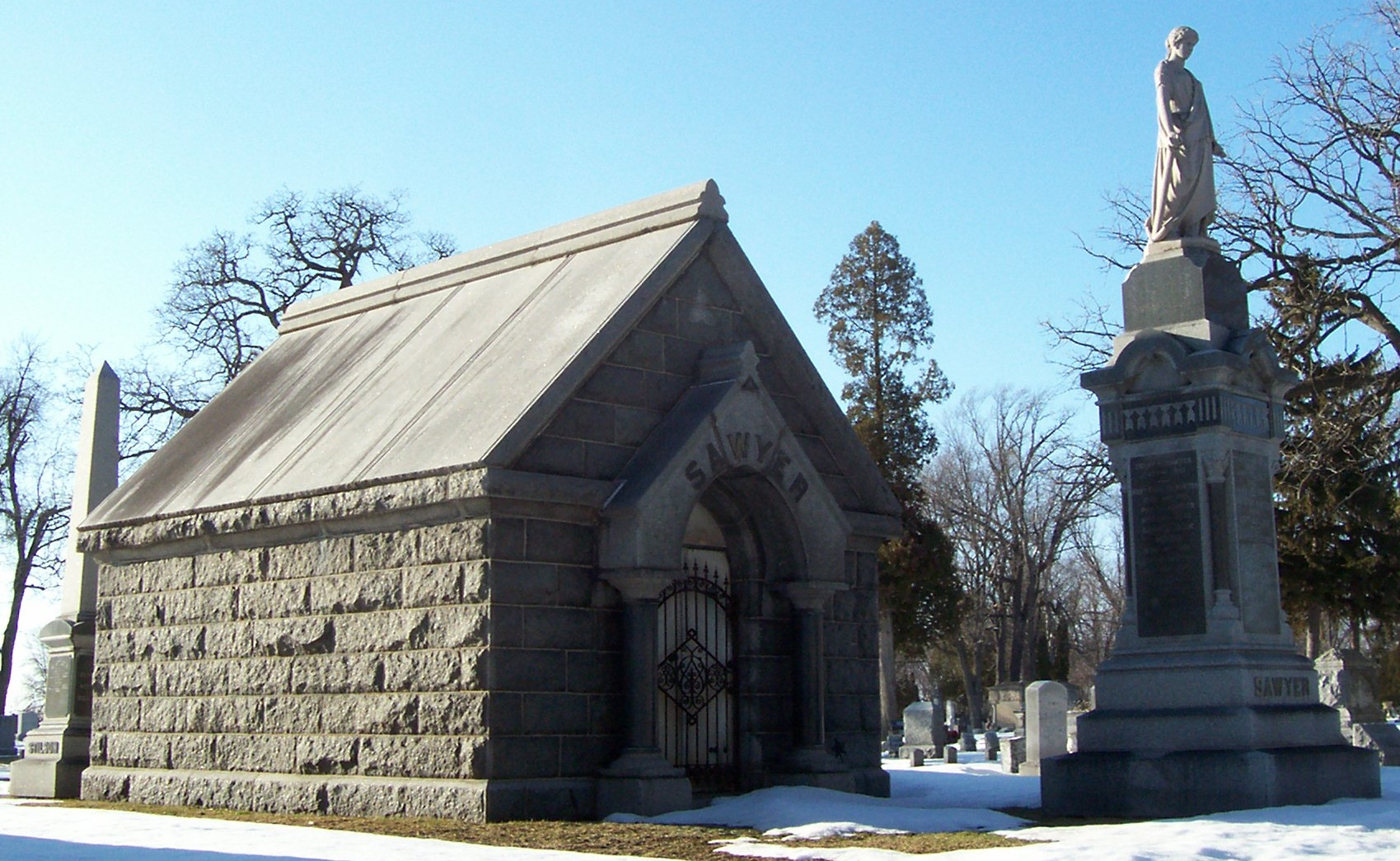 The family mausoleum for American Congressman Philetus Sawyer at Riverside Cemetery in Oshkosh, Wisconsin, USA. The cemetery is a registed historic place.